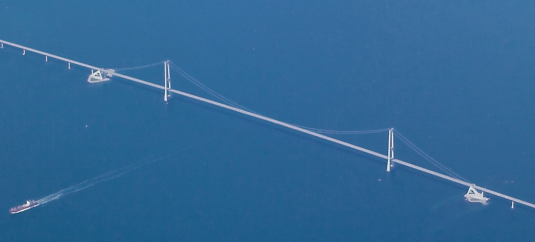 The Estern Bridge of Storebæltsbroen.